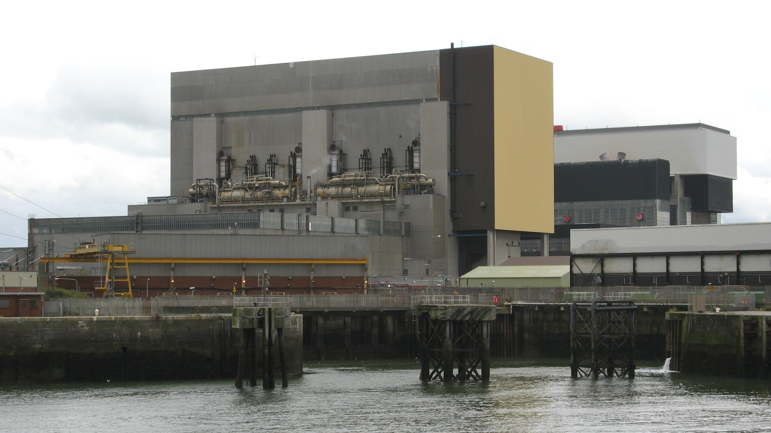 Heysham Power Station, from Heysham harbour dockside. Showing both Advanced gas-cooled (AGR) plants, stage 1 (on left) and stage 2 (obscured on right), each with two AGR nuclear reactors.